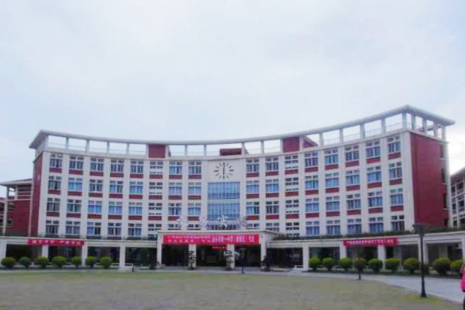 This picture shows the frontal view of the new campus of Shantou No.1 High School, Guangdong Province, China.